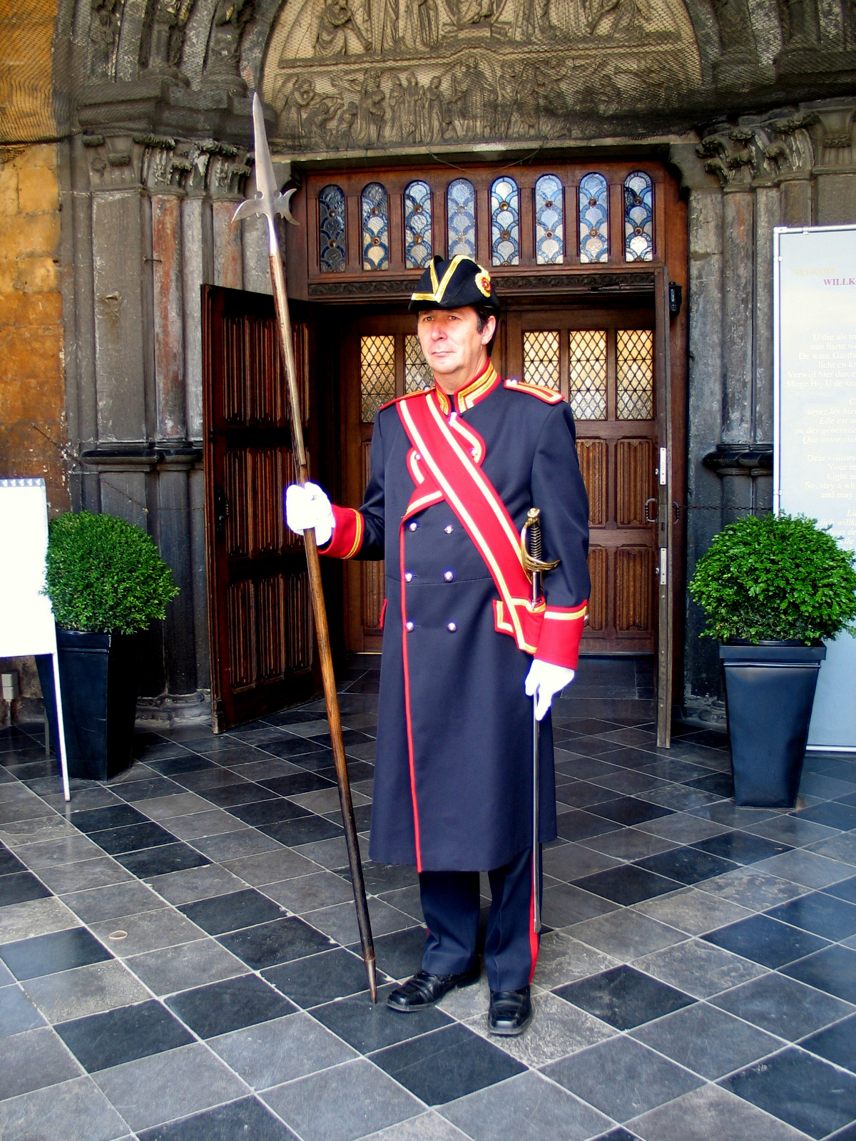 Beadle of the Tongeren Basilica